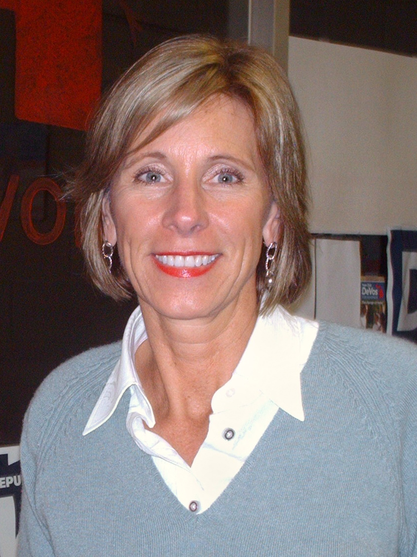 Betsy DeVos at the Houghton County Republican Victory Center in 2005